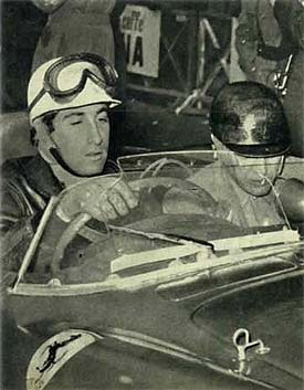 Alfonso de Portago and Edmund Nelson in #531, a Ferrari 335 S s/n 0676 at Mille Miglia on May 11–12, 1957. Both drivers and nine spectators were killed in this race.[1]